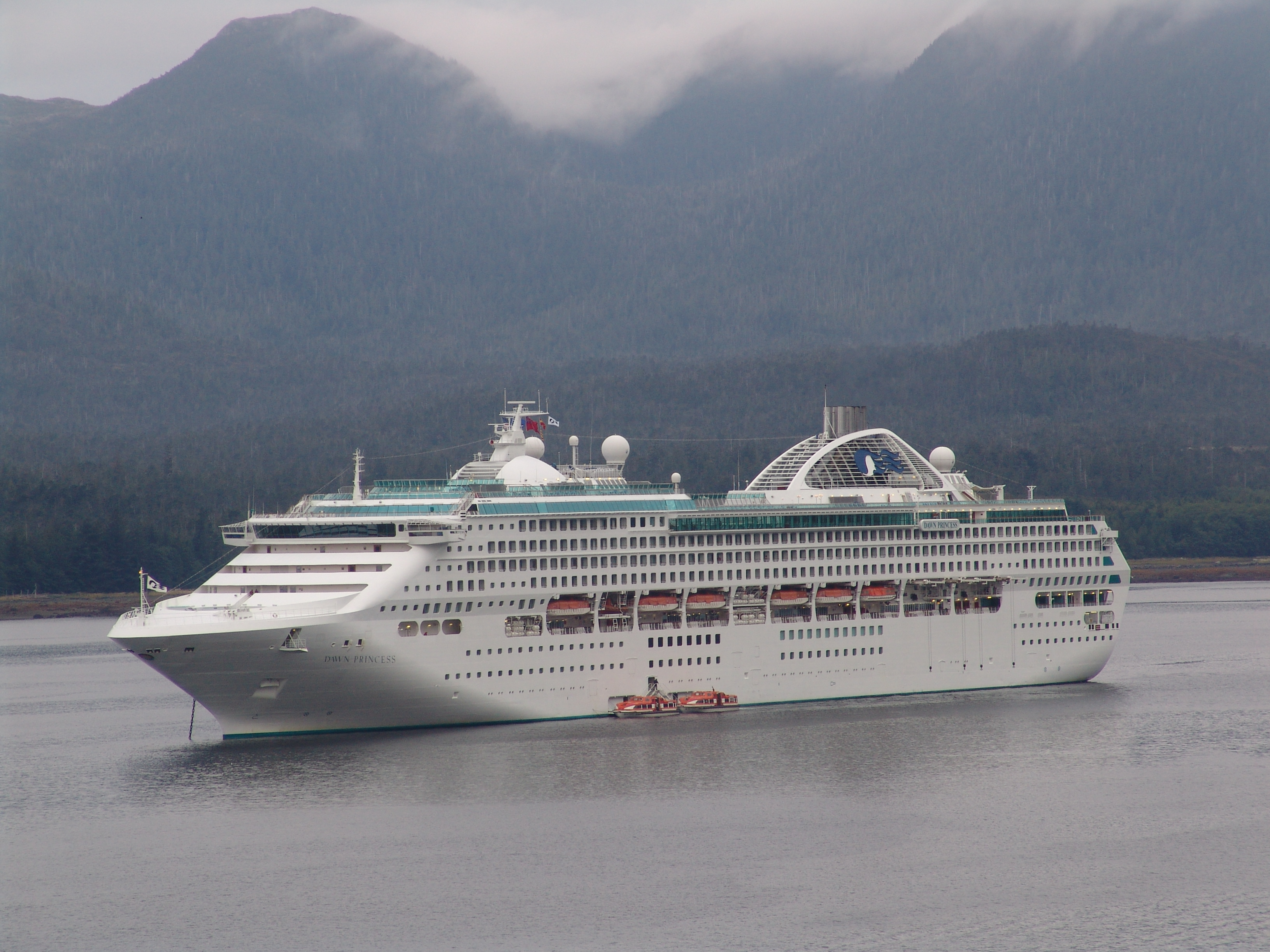 The Dawn Princess in Ketchikan, Alaska operating tenders. I took the picture. IMO number 9103996 MMSI Number: 310437000 Callsign: ZCBU2 Length: 266 m Beam: 32 m